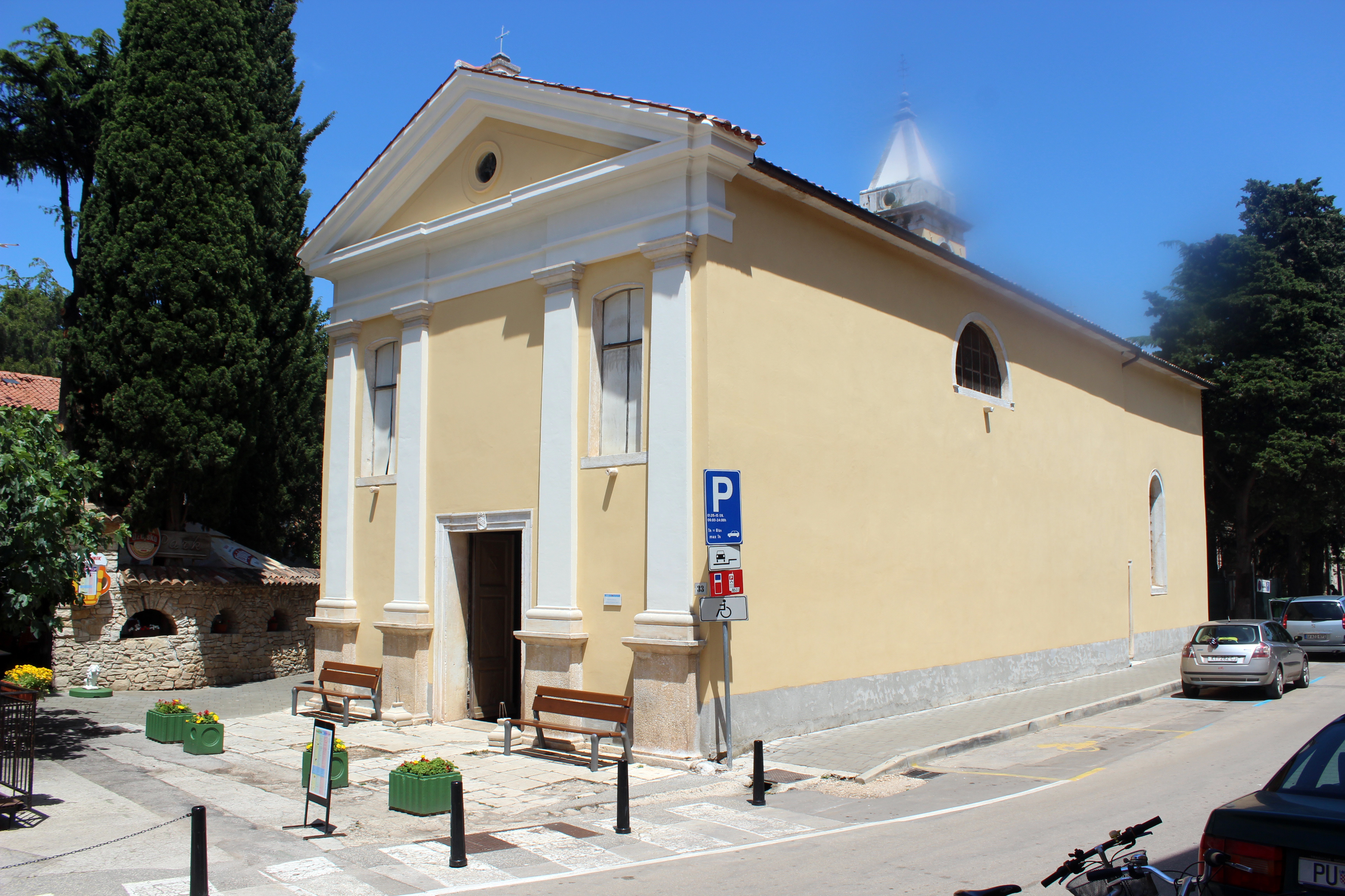 Church of Gospa of Karmela (Crkva Gospe od Karmela), in Novigrad, Croatia